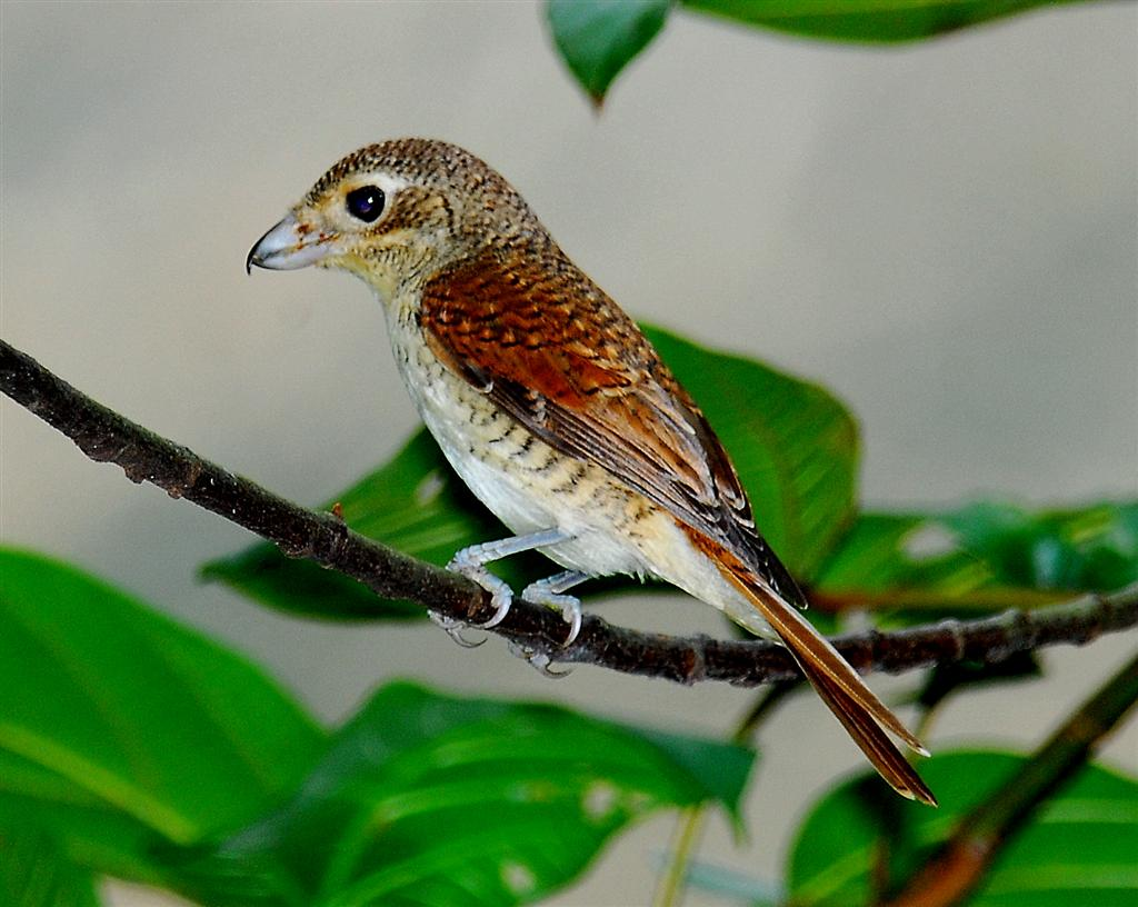 A Tiger Shrike (Lanius tigrinus) at Hindhede Nature Park, Singapore.